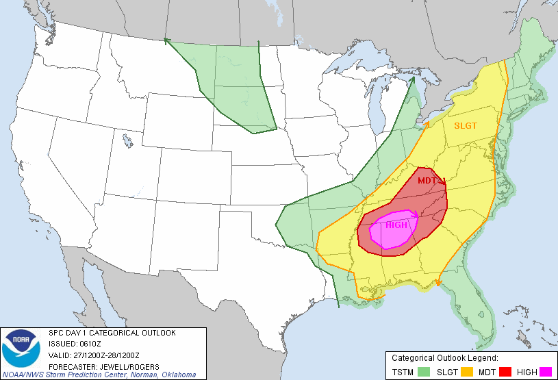 High risk severe weather outlook issued by the Storm Prediction Center for April 27, 2011